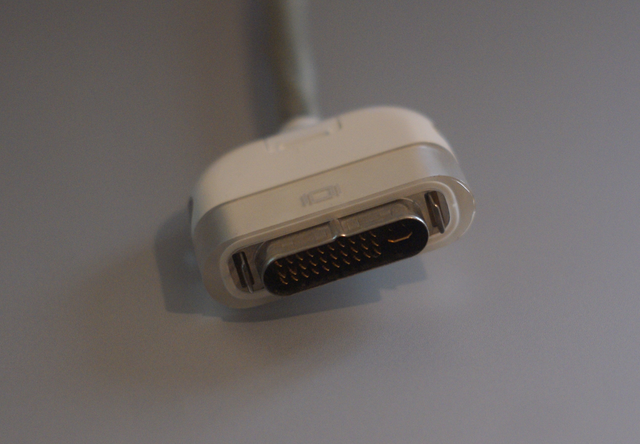 ADC (Apple Display Connector)